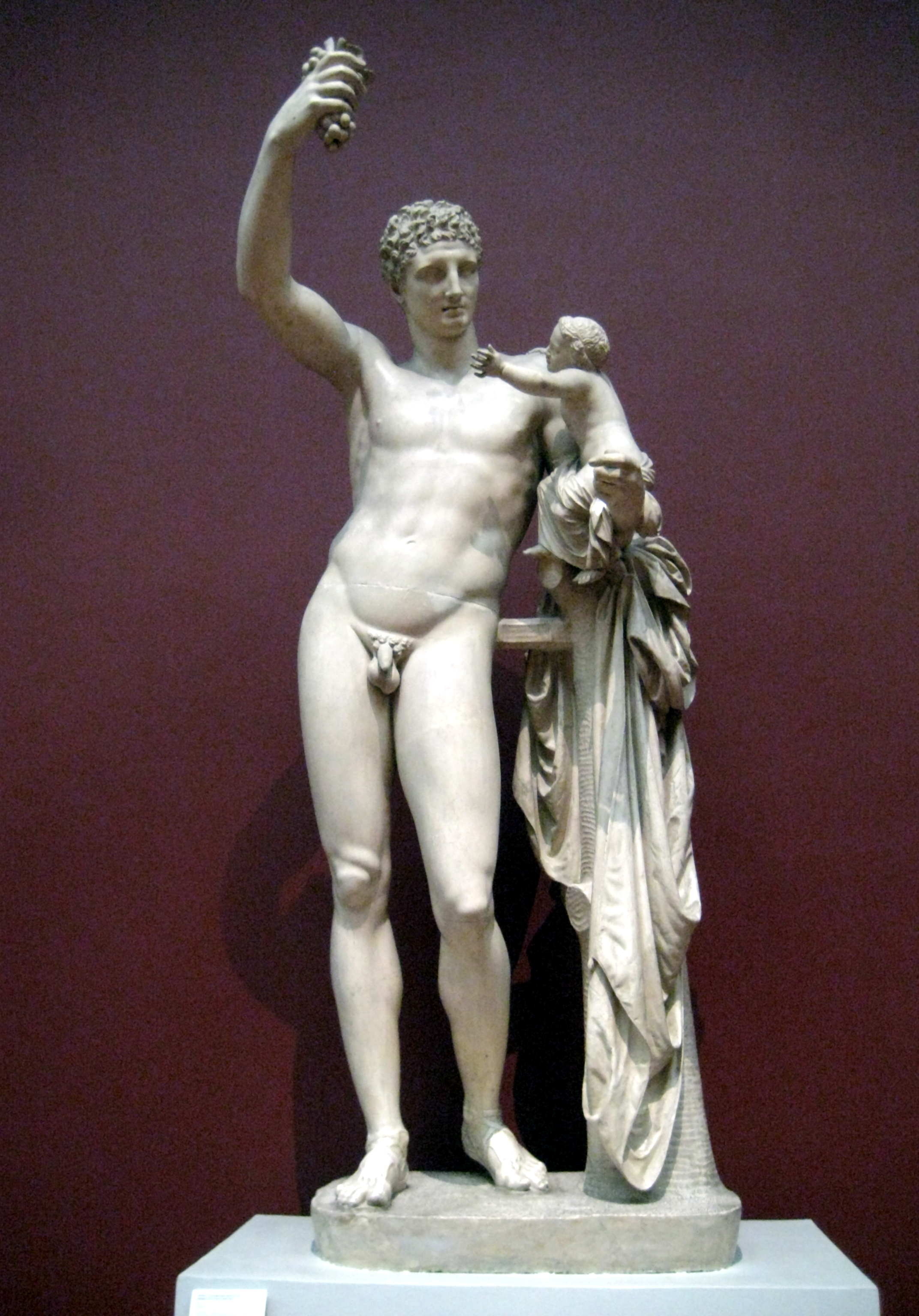 Hermes bearing the child Dionysos. Plaster cast in Pushkin Museum, Russia, after original found in Olimpya